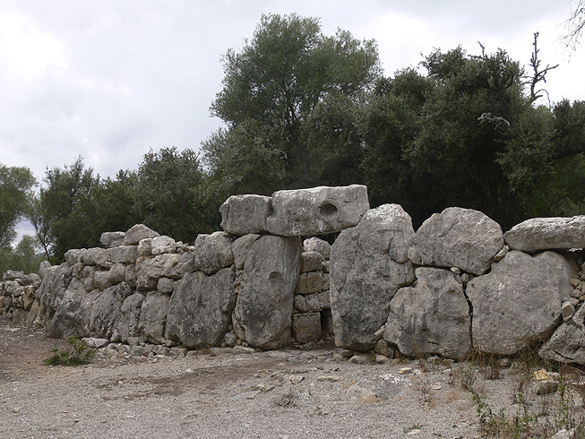 Gateway in the "cyclopean" dry-stone walls, built circa 1000BC–800BC, surrounding the Talayotic settlement of Ses Païsses, off the Carretera de Ses Païsses, southeast of Artà in northwest Mallorca.